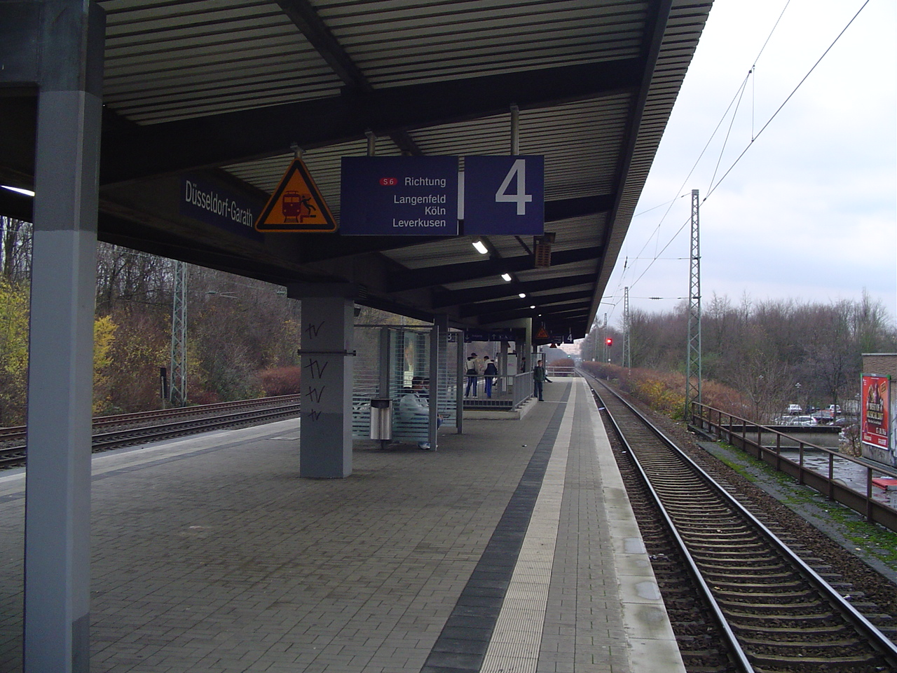 Düsseldorf-Garath S-Bahn stop, Germany